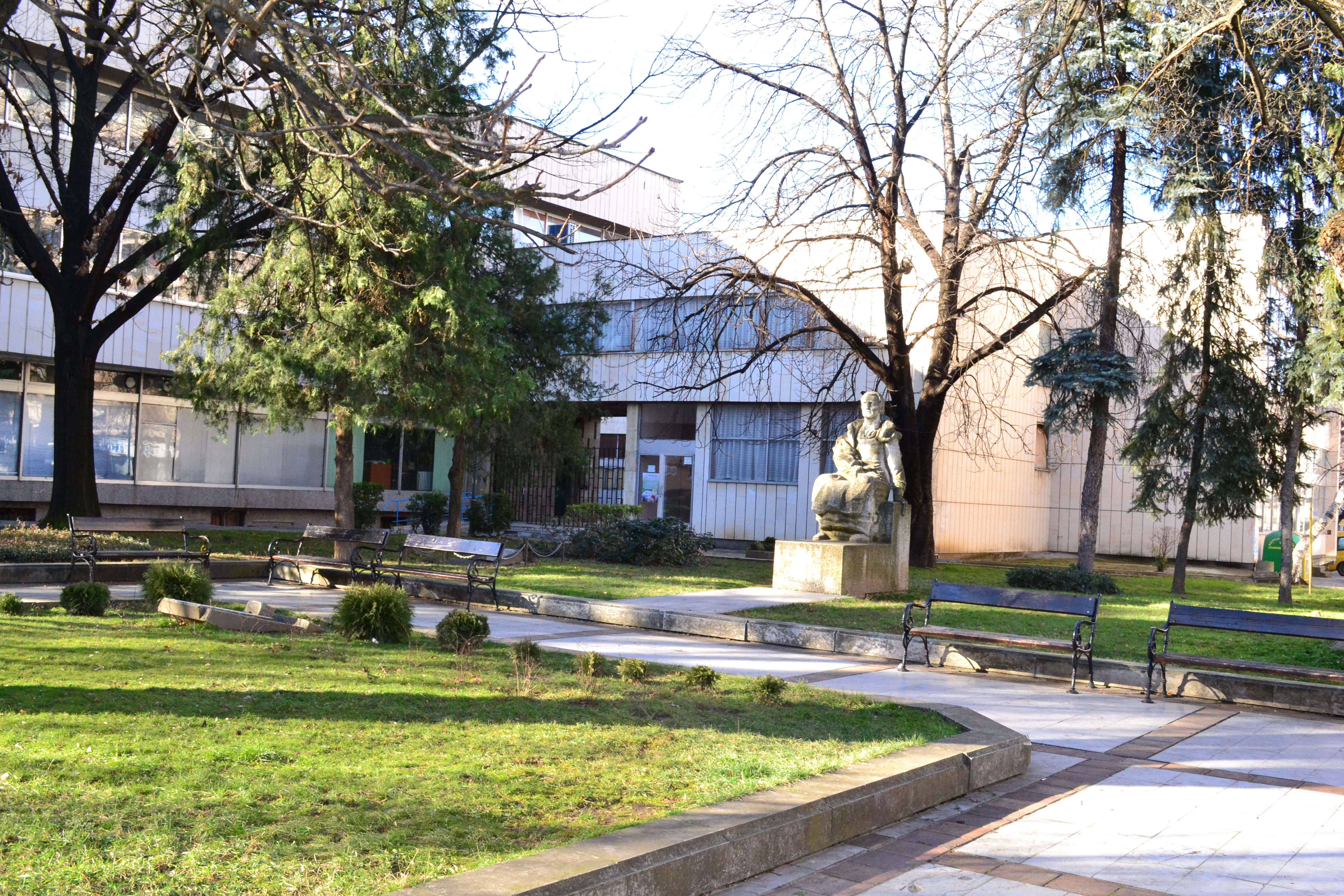 This photo was uploaded during the creation of the first wikitown in Bulgaria – WikiBotevgrad.